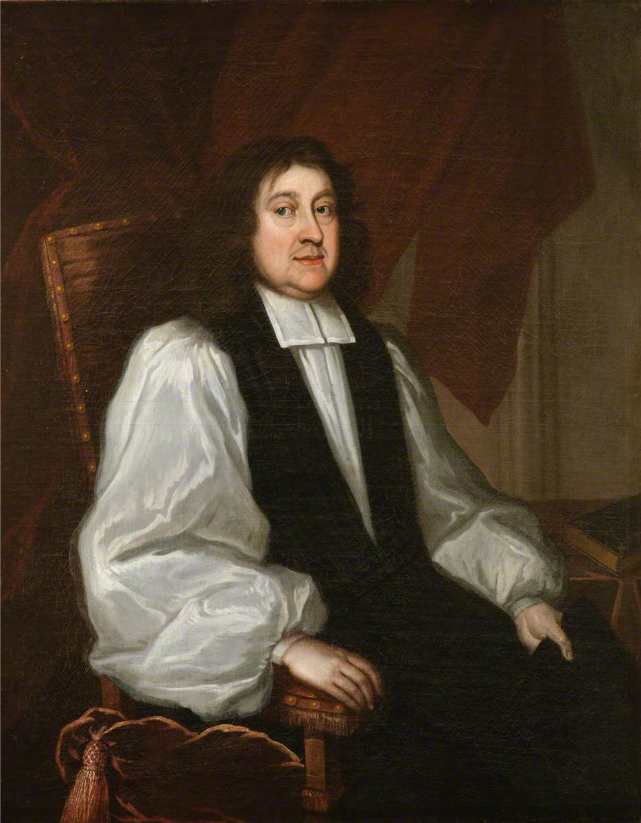 Gilbert Burnett, Bishop of Salisbury (1643-1715), younger son of Robert Burnet, Lord Crimond, & nephew of Sir Thomas Burnett of Leys, 1st Bt. - three-quarter length, in clerical dress, seated in a red velvet-covered chair.